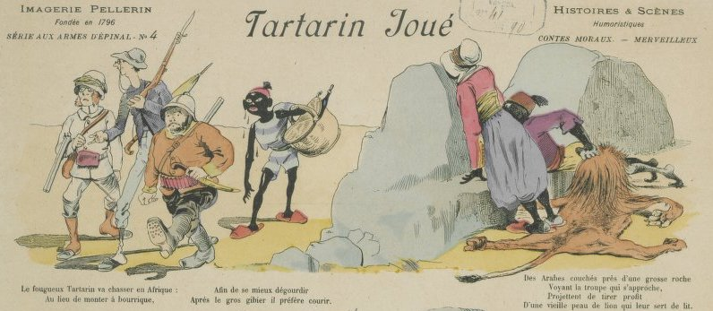 Illustrations of the adventures of Tartarin de Tarascon